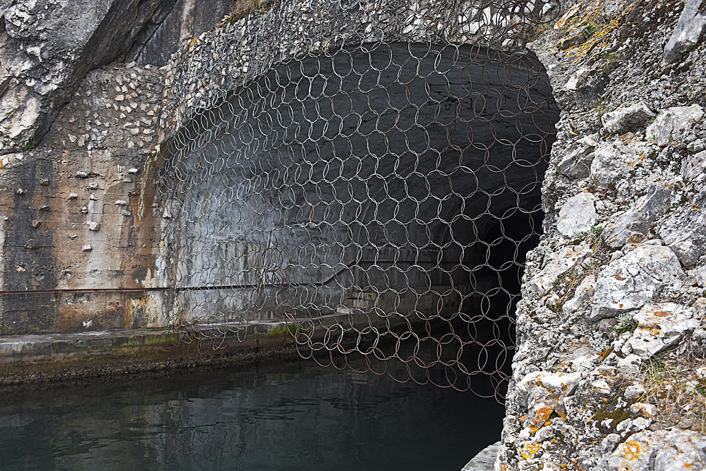 A 150 m long tunnel/bunker for military ships, built by Germans during the World War II. Near Šibenik in Croatia.